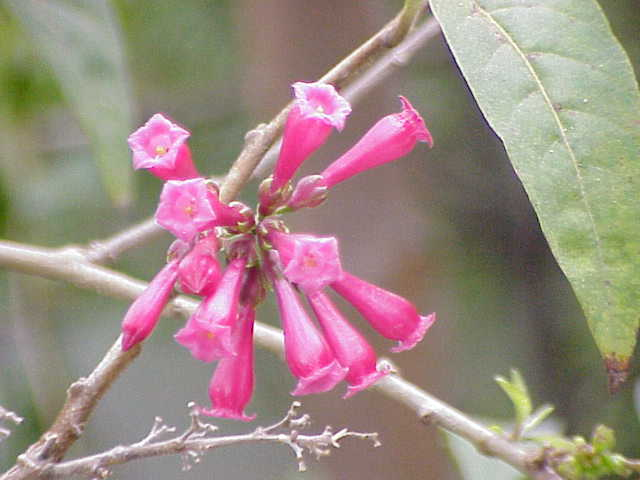 Species: Cestrum elegans Family: Solanaceae Image No. 1